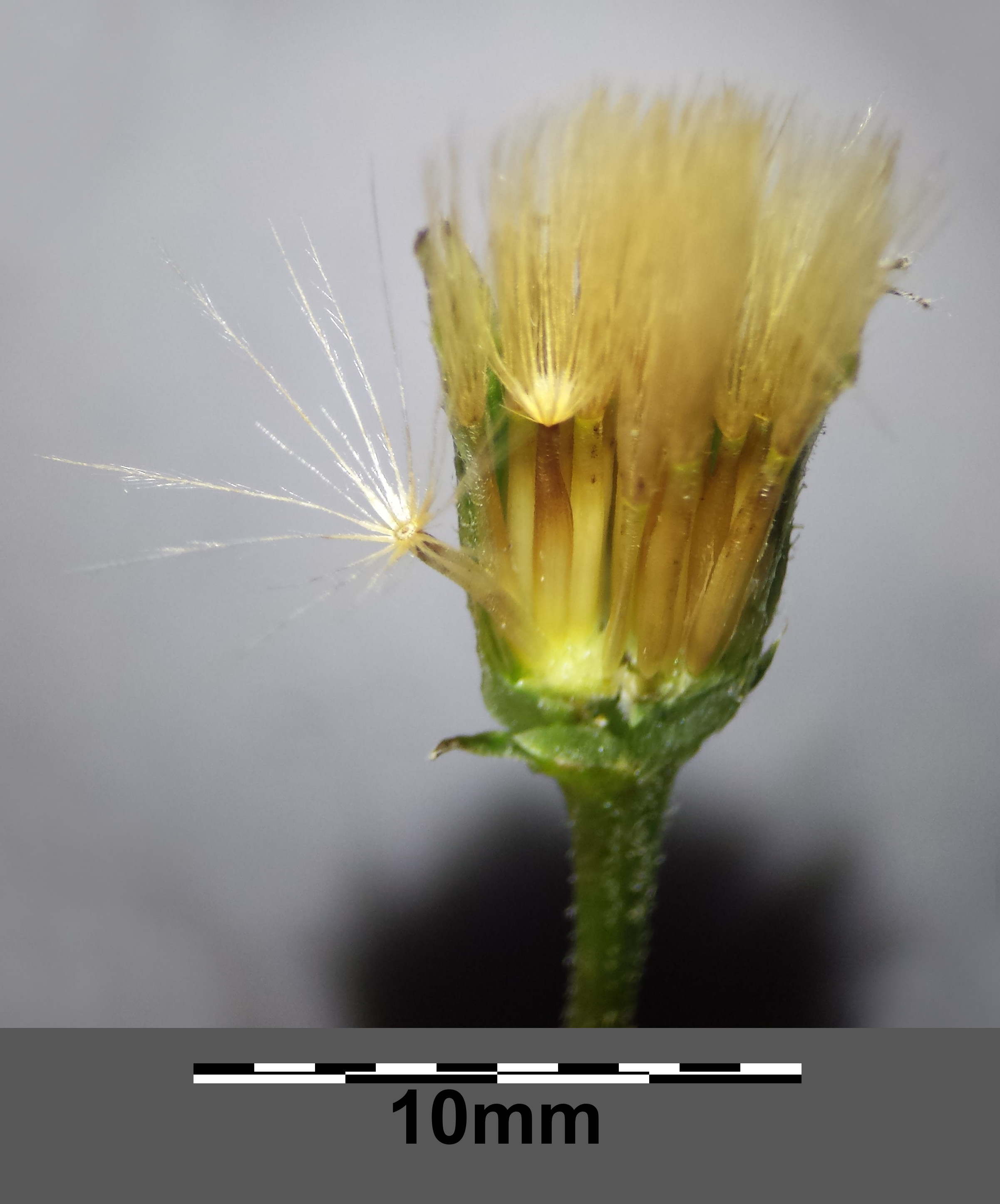 Capitulum, opened Taxonym: Leontodon hispidus ss Fischer et al. EfÖLS 2008 ISBN 978-3-85474-187-9 Location: Stammersdorfer Zentralfriedhof cemetery, Vienna-Floridsdorf - ca. 160 m a.s.l. Habitat: ruderal area